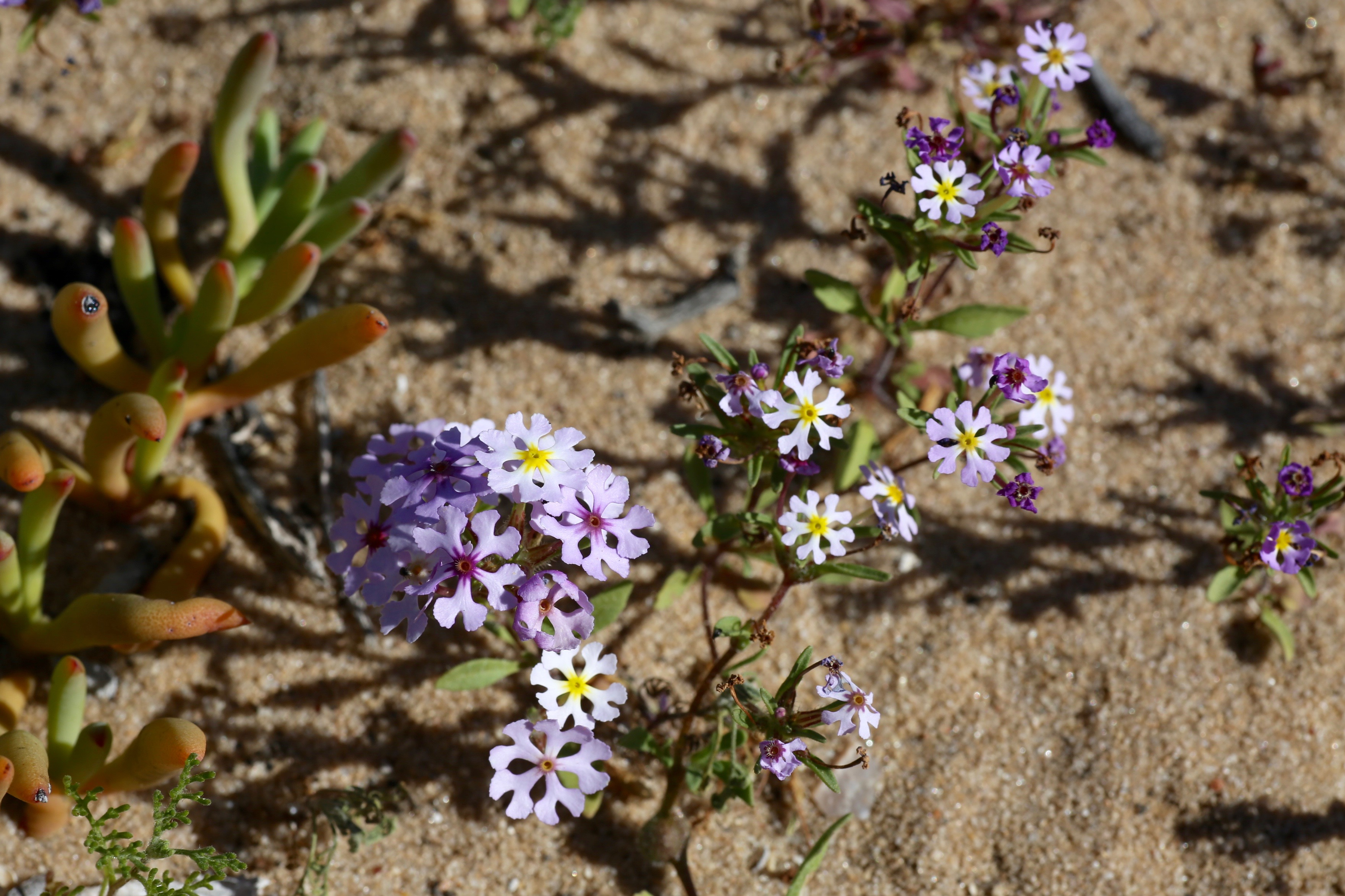 Сoastline of Namaqua National Park, Namaqualand Coastal Duneveld, Northern Cape, South Africa